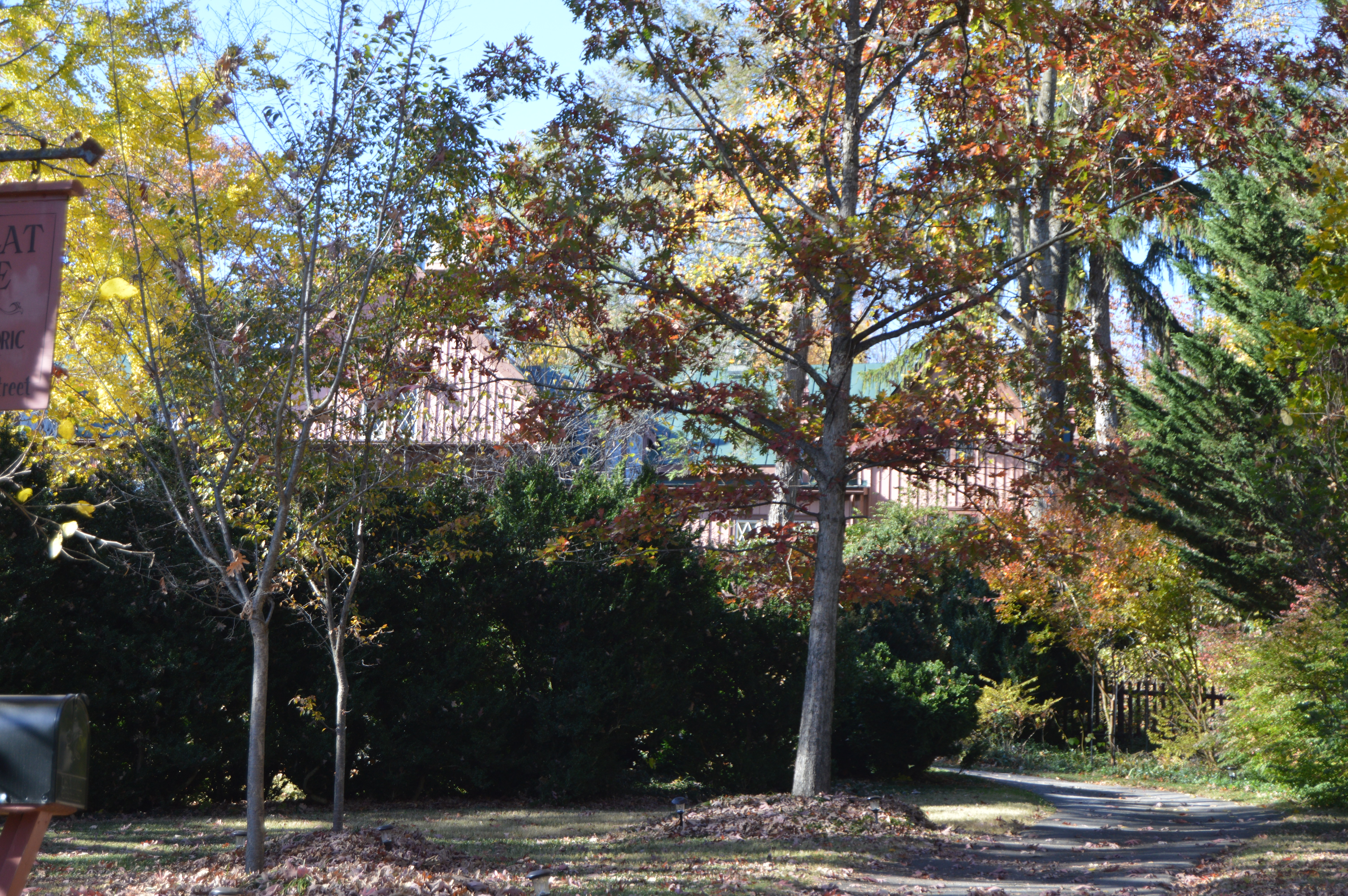 View through the trees of the J.C.M. Merrillat House, located at 521 E. Beverley Street in Staunton, Virginia, United States. Built in 1851, it is listed on the National Register of Historic Places.